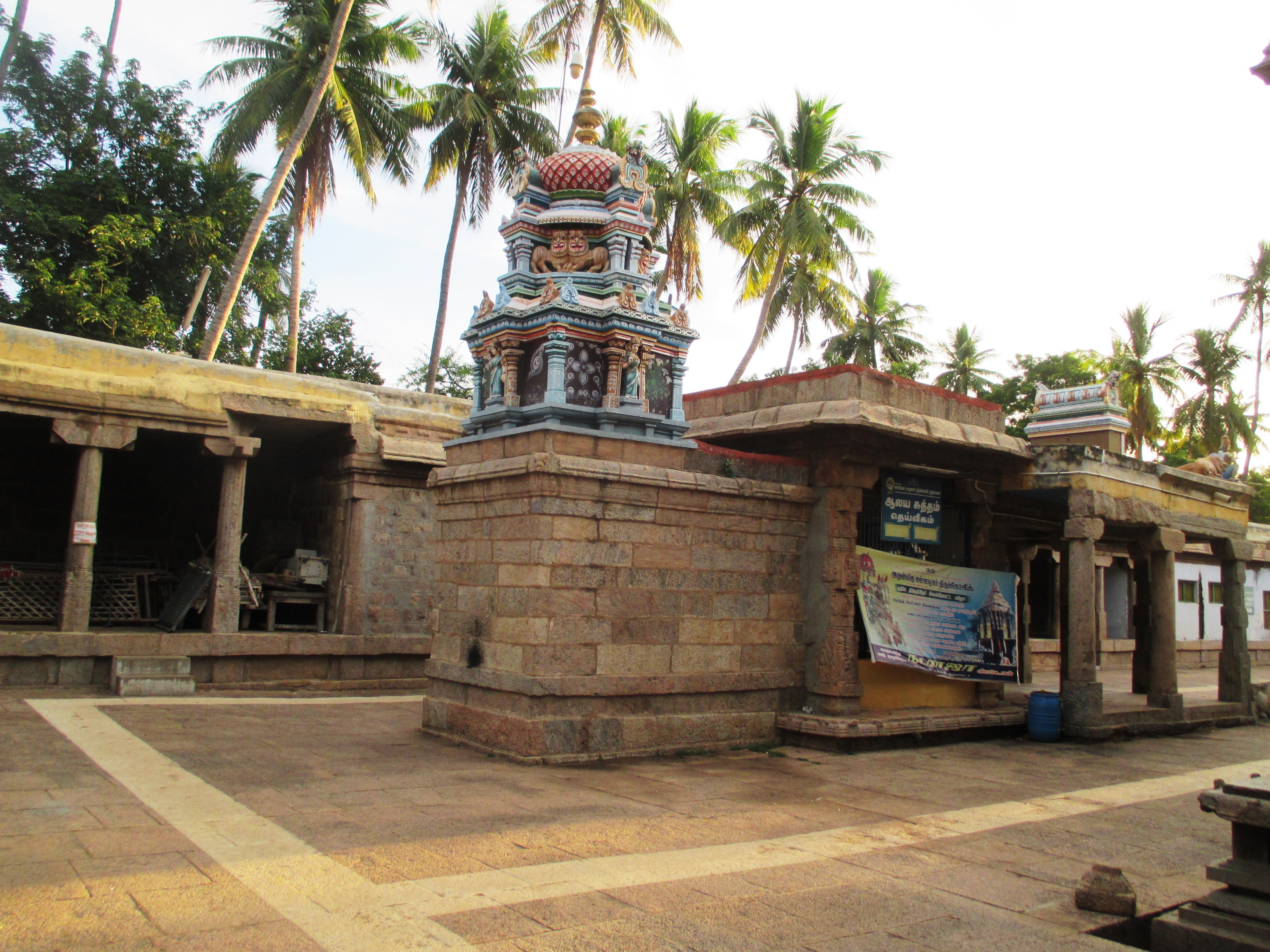 Kalamegaperumal Temple,Tirumohur